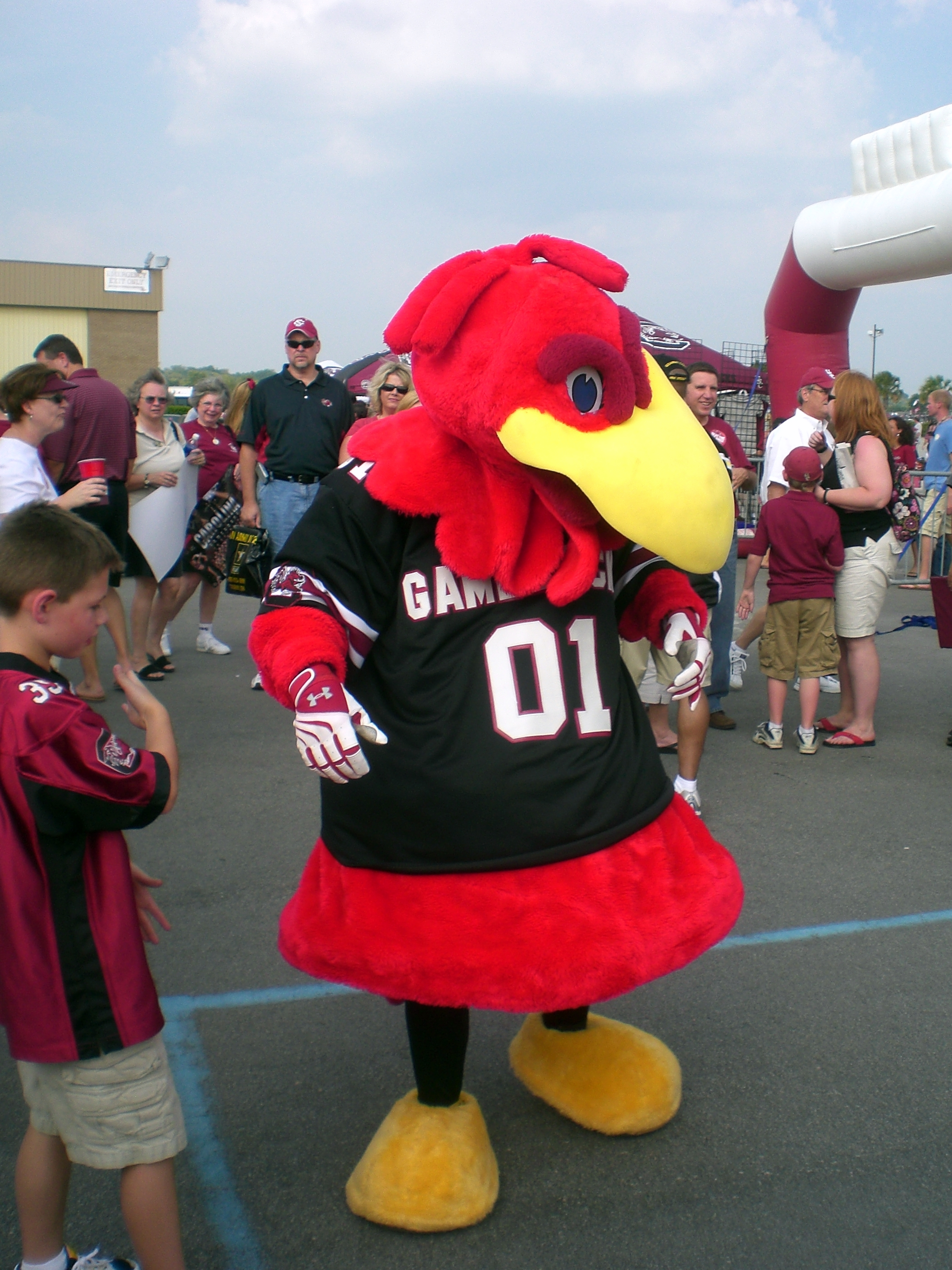 Cocky doing a meet and greet at Gamecock Village. University of South Carolina's mascot, Cocky entertaining Gamecock fans at Gamecock Village prior to the USC vs. LousLaf game in 2007.